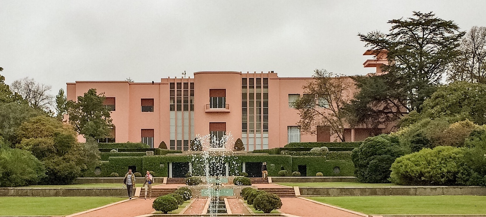 Casa de Serralves, Porto, October 2015